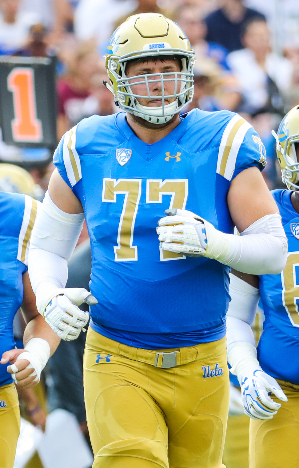 UCLA Bruins offensive lineman Kolton Miller (77), Scott Quessenberry (52) and Najee Toran (69).